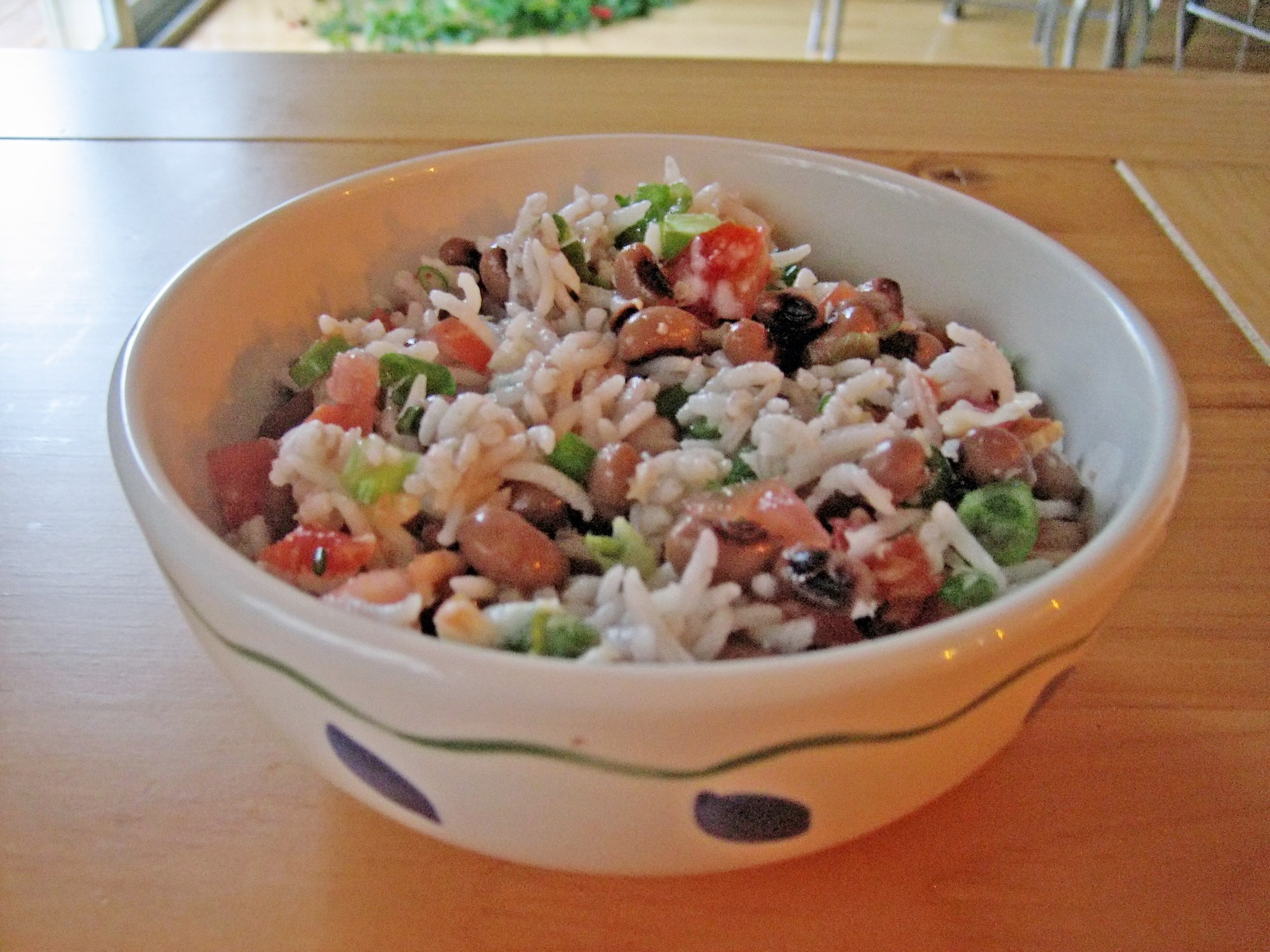 This is a bowl of Hoppin' John